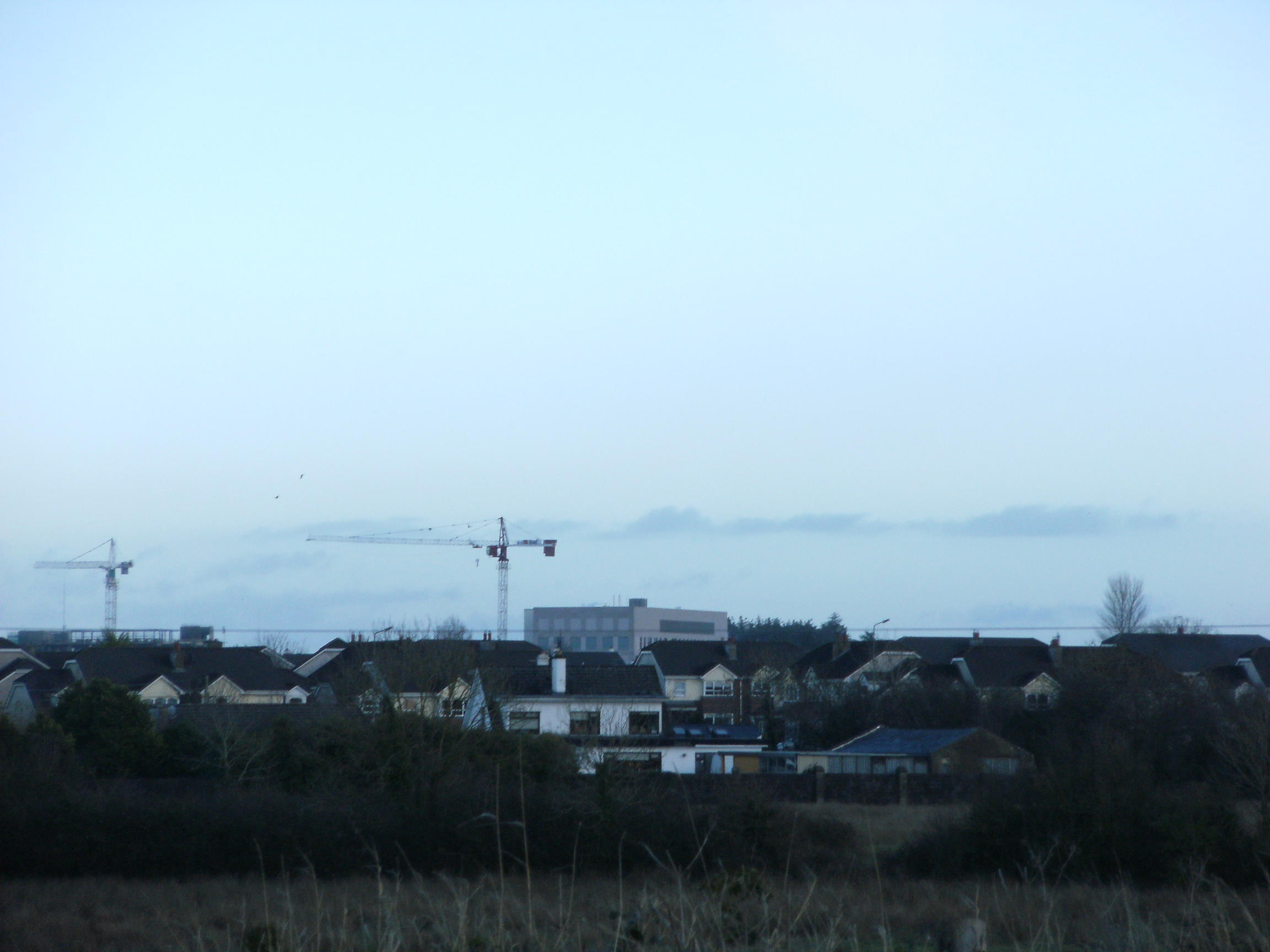 A view over the suburb of Raheen, County Limerick, Ireland.